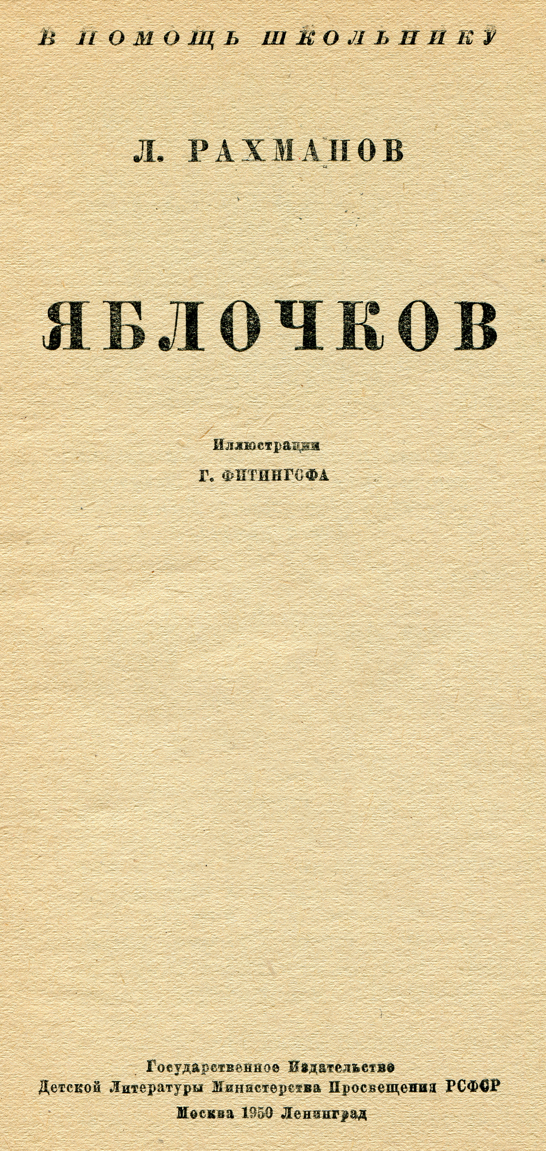 Book. Pavel Yablochkov